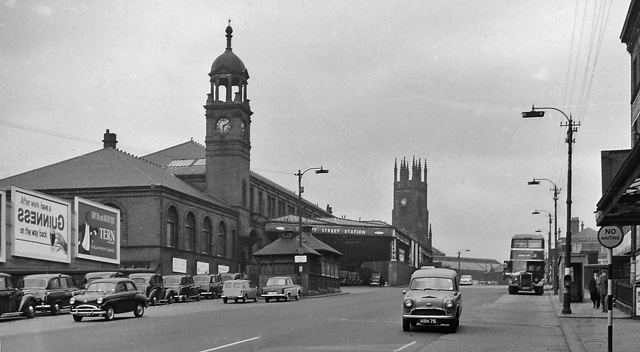 Bolton (Trinity Street) Station entrance. Near to Bolton, Great Britain. View westward of entrance; main ex-L&Y station in Bolton, on main lines from Manchester (Victoria) to Preston and to Blackburn, also to Southport and Liverpool via Wigan, with a connecting line from Bury and Rochdale. The last is the only line now closed (5/10/70), although since 4/77 when Liverpool Exchange was closed, Liverpool services are cut back to Kirkby where connection is made with Merseyrail services to Liverpool Central.